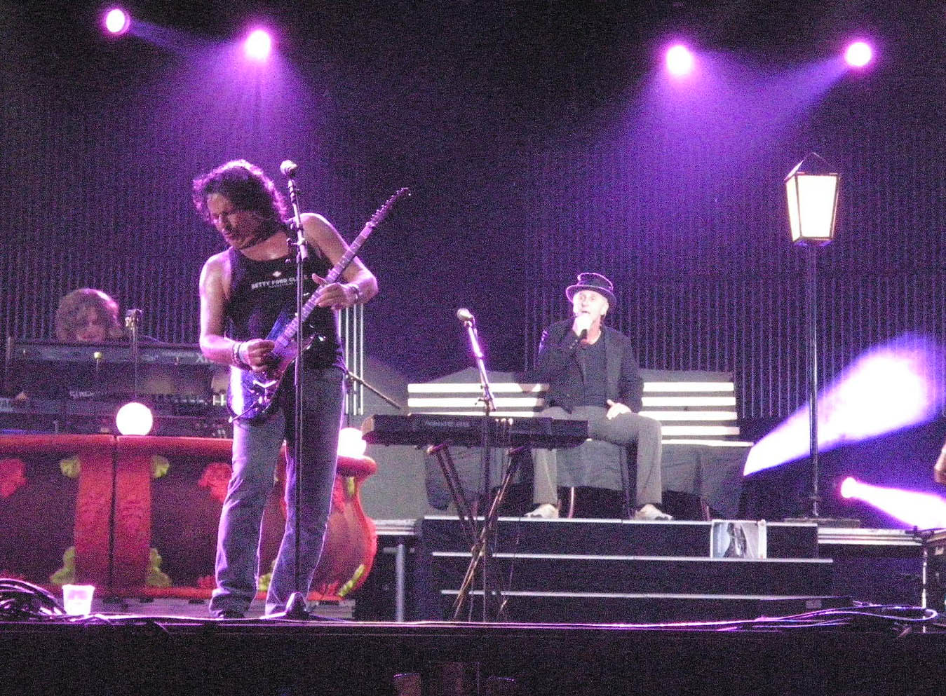 Erste Allgemeine Verunsicherung in Vienna, Austria, Donauinselfest 2008.